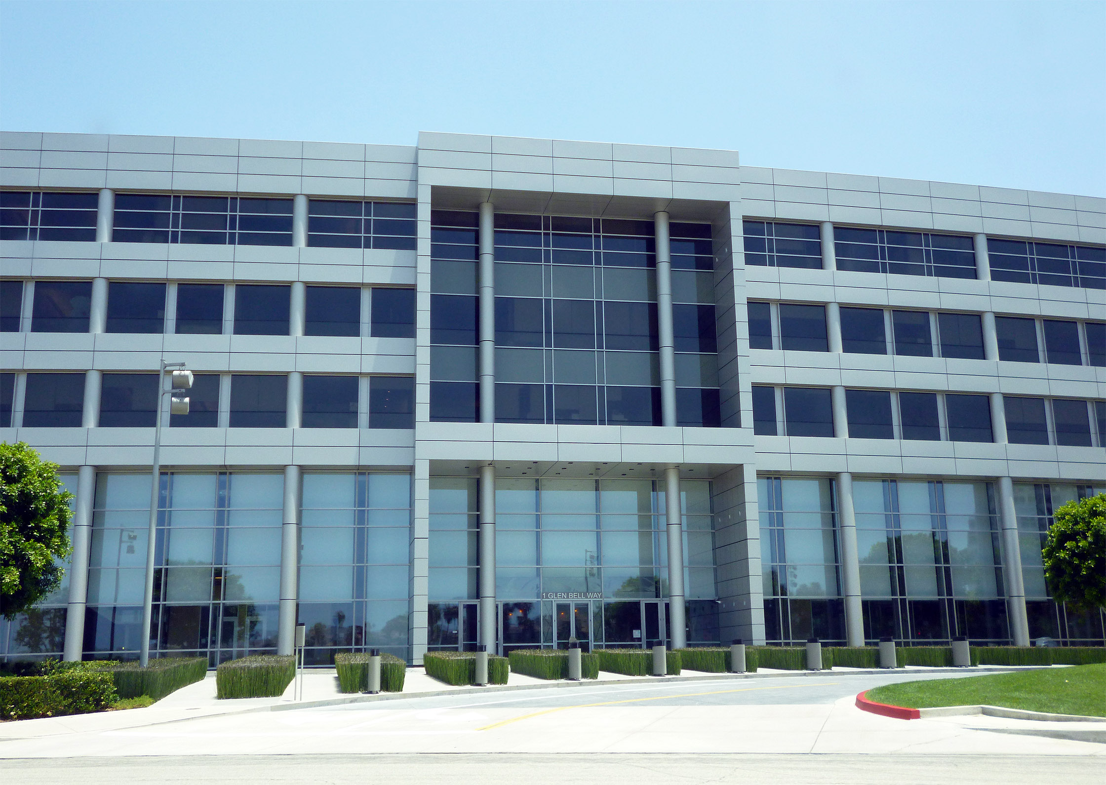 Taco Bell headquarters at the Irvine Spectrum in Irvine, California. Photographed by user Coolcaesar on September 1, 2012.